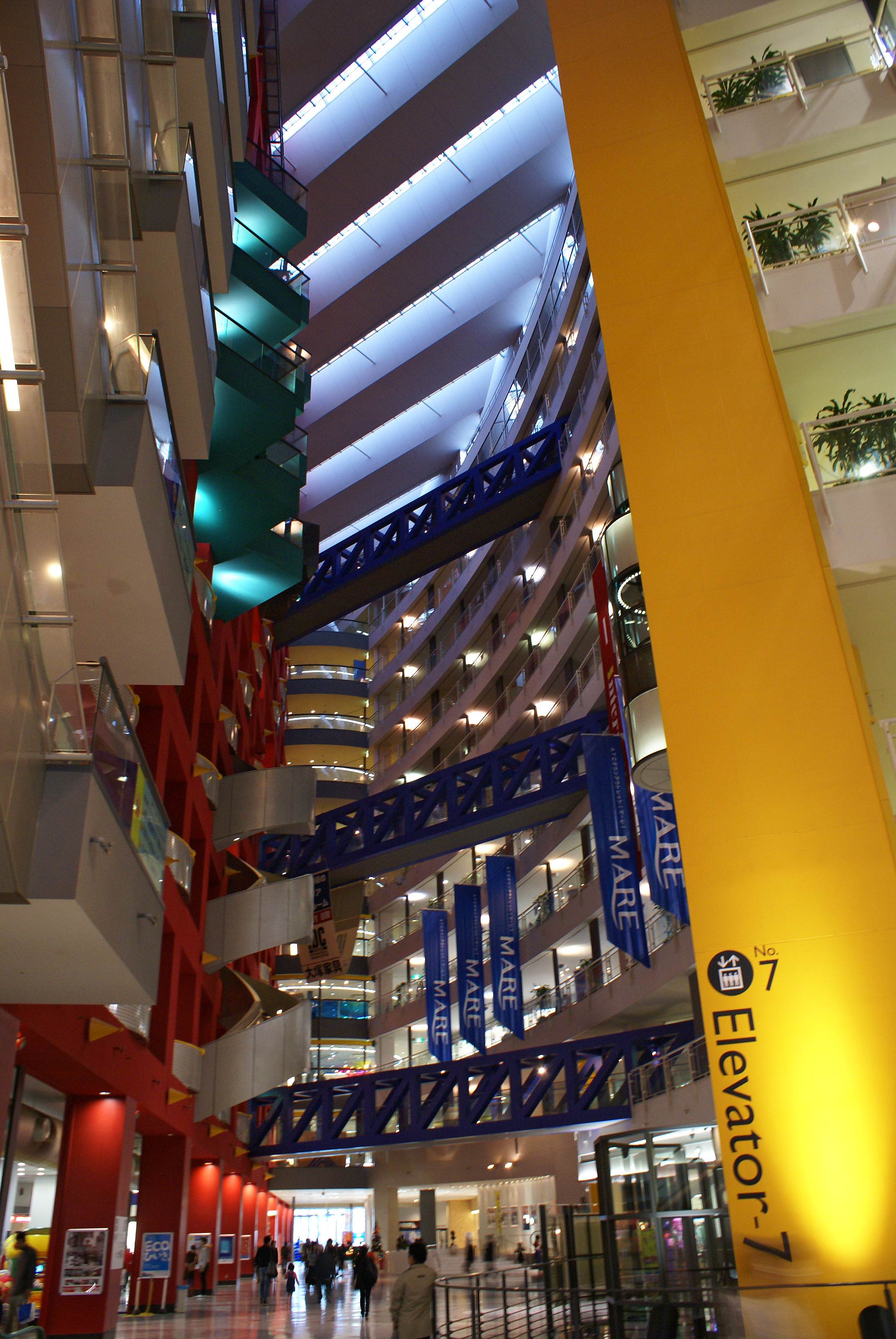 Asia and The Pacific Ocean Trade Center in Osaka, Japan.